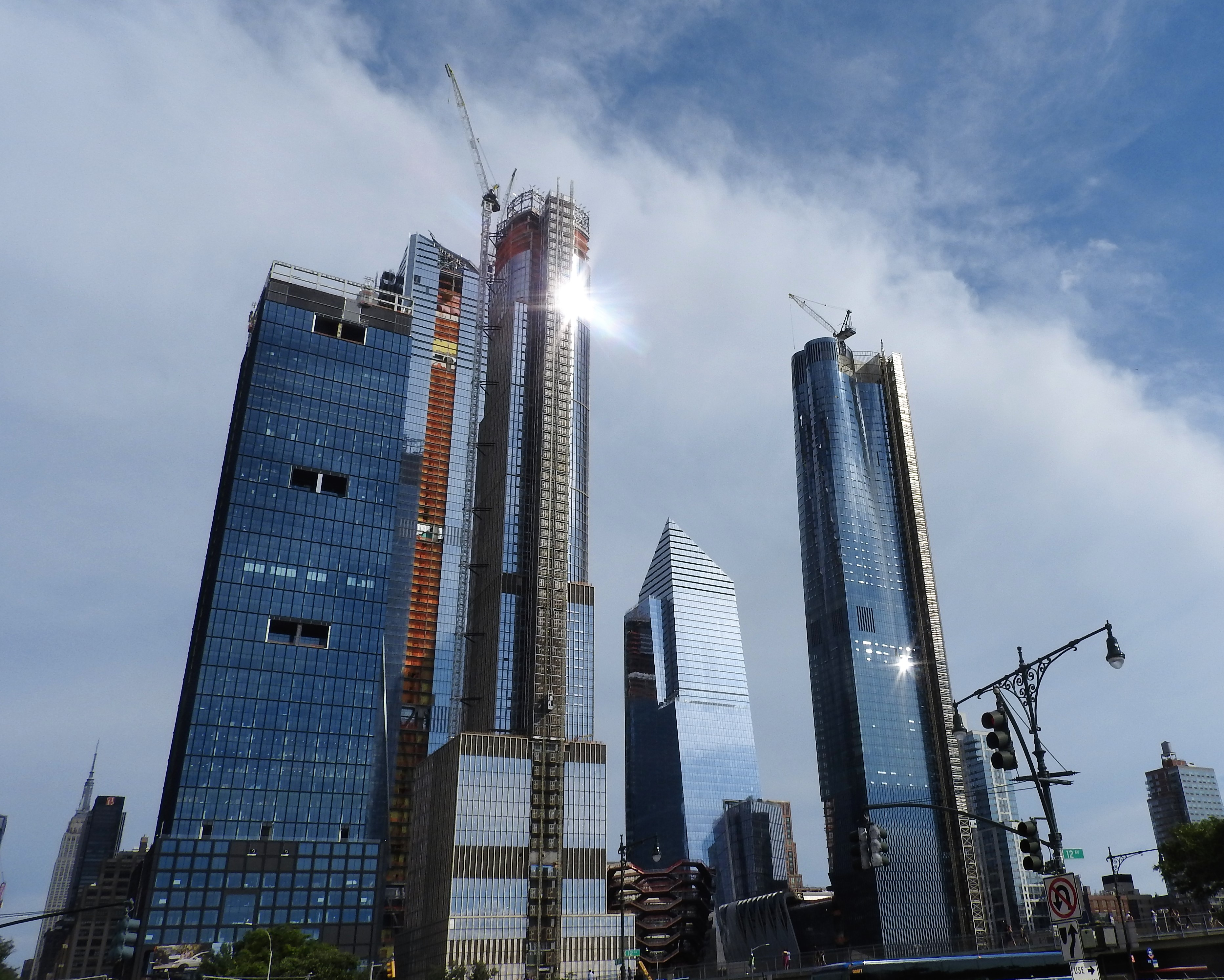 Looking southeast from foot of 34th at skyscraper complex under construction